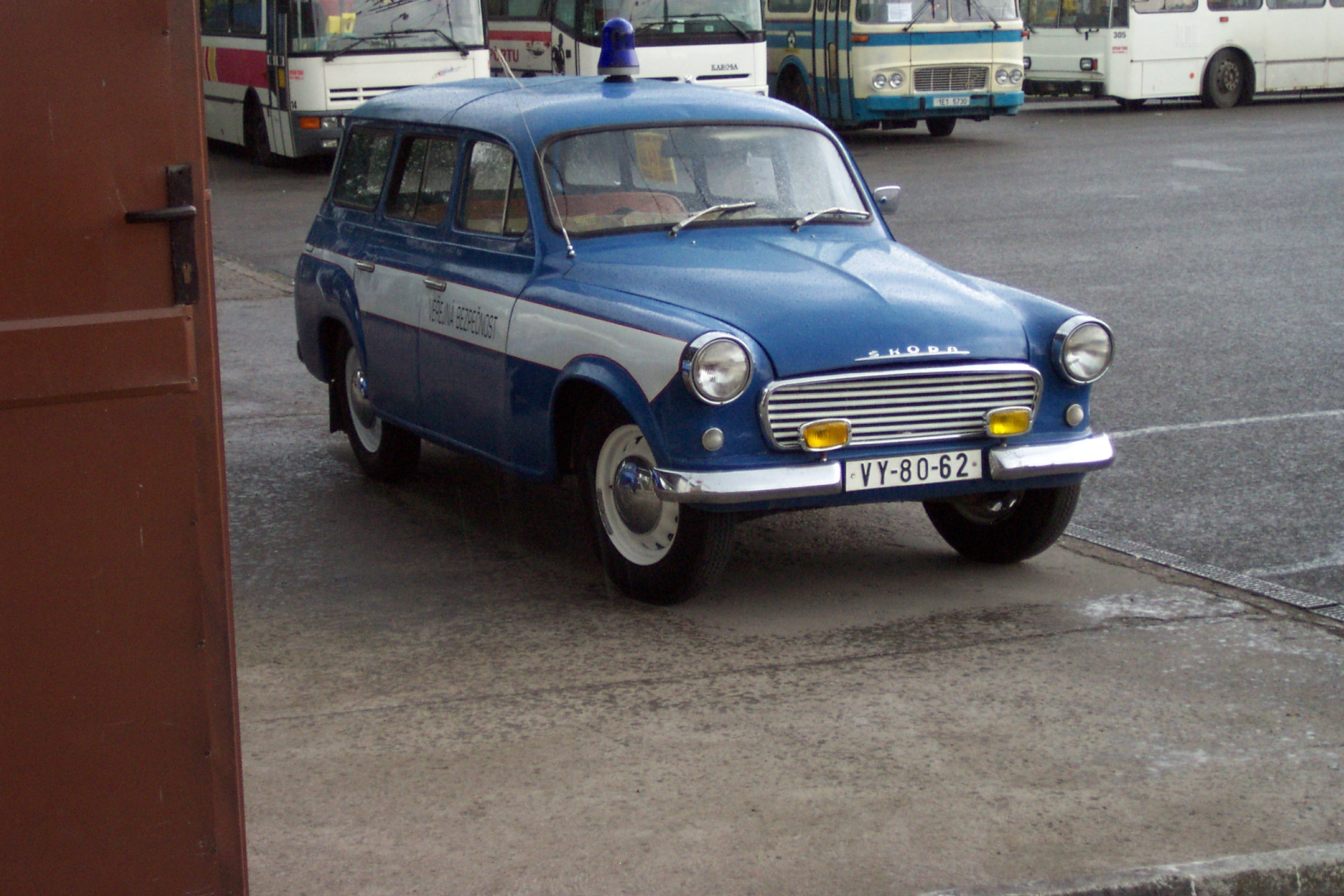 Historic Škoda Octavia 1202 police car (Veřejná bezpečnost - Public Security i.e. communist name for police) at the 55th anniversary of trolleybus transport in Pardubice